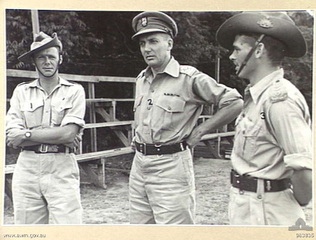 KAIRI, QUEENSLAND. 1944-12-02. Brigadier I. N. Dougherty NX148, Commander 21 infantry Brigade (2), With Major L. E. Walcott NX34843, Brigade Major (1), and Captain H. M. Hamilton VX20308, Staff Captain (3)